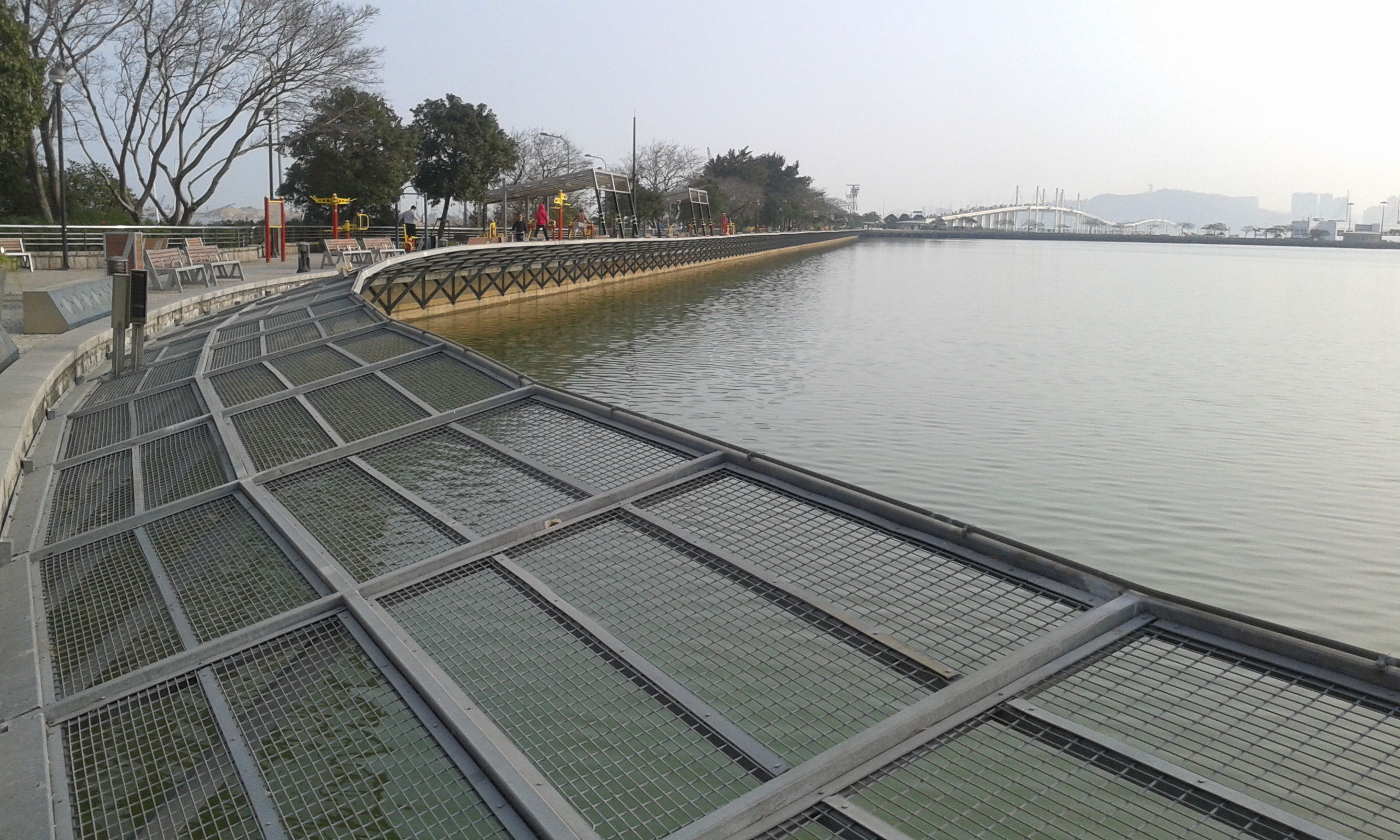 Reservatorio Macau